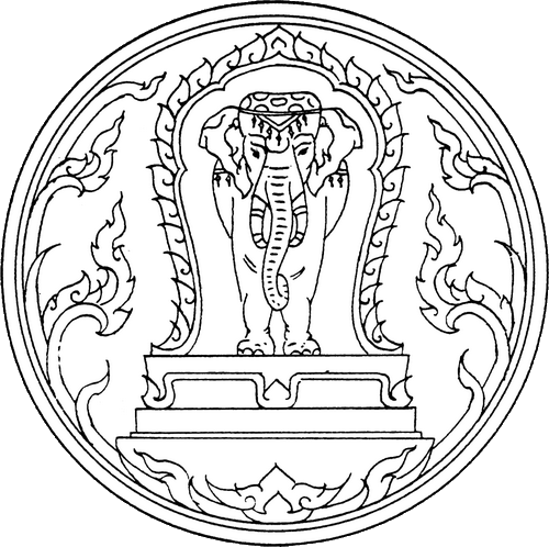 Provincial seal of Chiang Mai province.